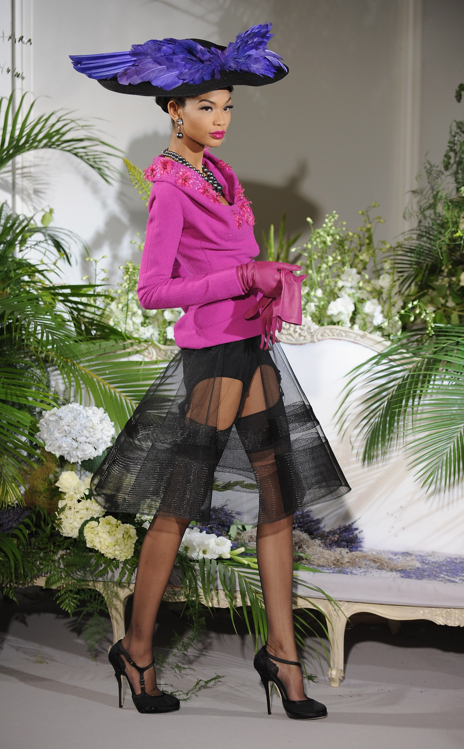 Model Chanel Iman on the runway during the Christian Dior Haute Couture fashion show for A/W 2009/10 on July 6, 2009 in Paris, France.